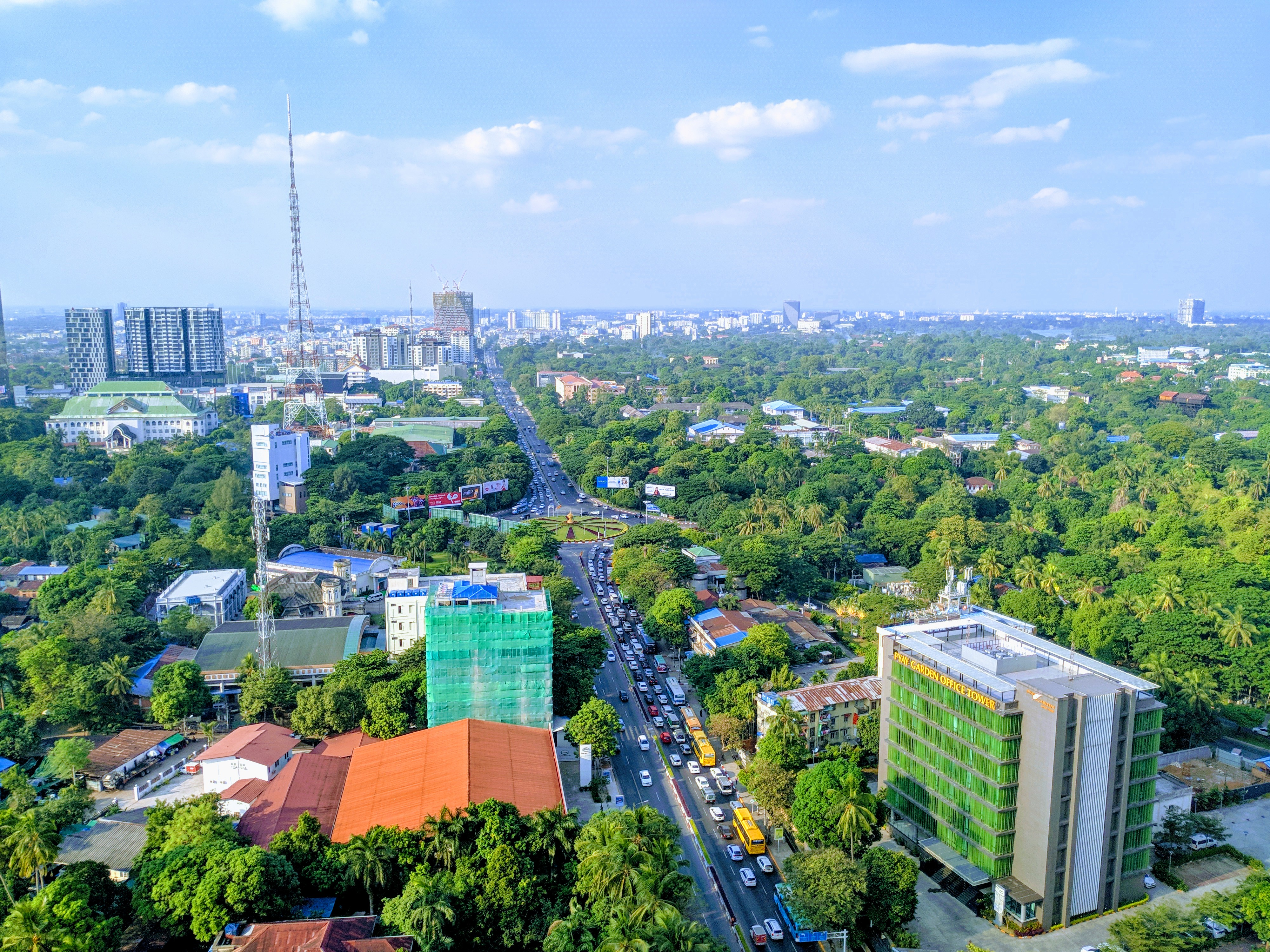 Aerial view of Pyay Road and Hantharwaddy Roundabout, Yangon